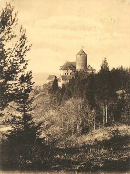 Colmberg Castle between Rothenburg and Ansbach. Cropped from a photo-postcard postally used in 1905.